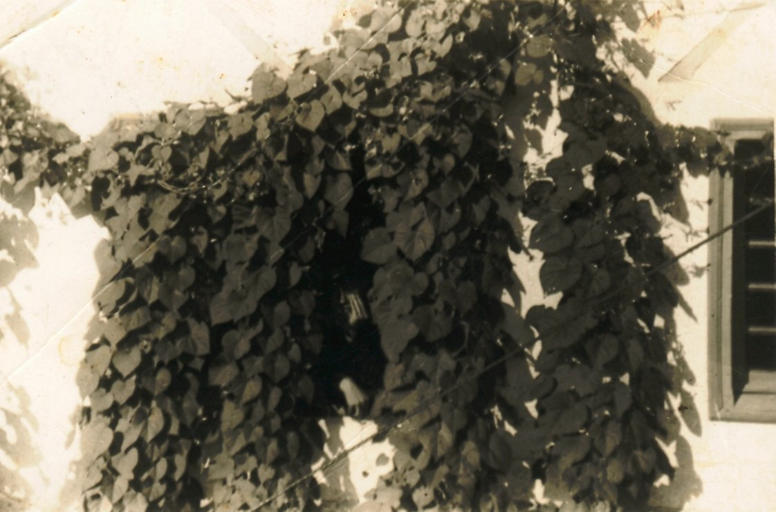 Railstation of Zanzabornín (Pieloro - Carreño - Asturies - Spain)